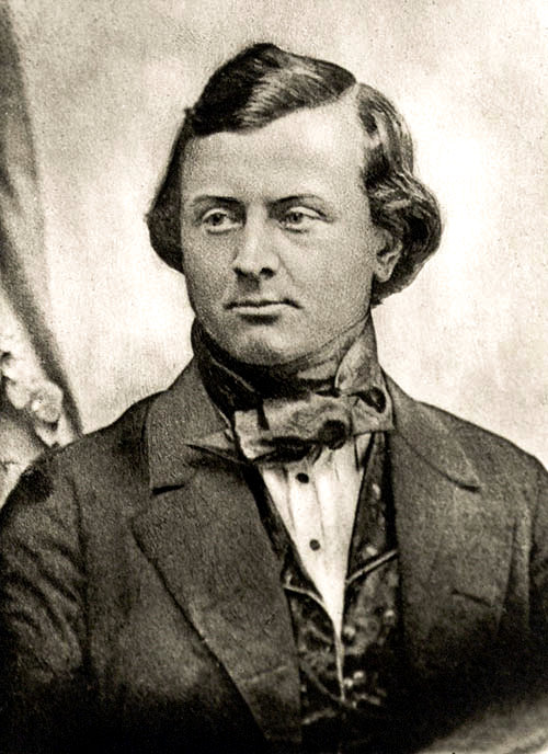 Karl Georg Lucas Christian Bergmann or Carl Georg Lucas Christian Bergmann (1814-1865). Original descripton of this image file: “picture, year unknown, portrait collection of the UAR”. Article of "Karl Georg Lucas Christian Bergmann" in the Catalogus Professorum Rostochiensium of the University Archives Rostock (Universitätsarchiv Rostock (UAR)).